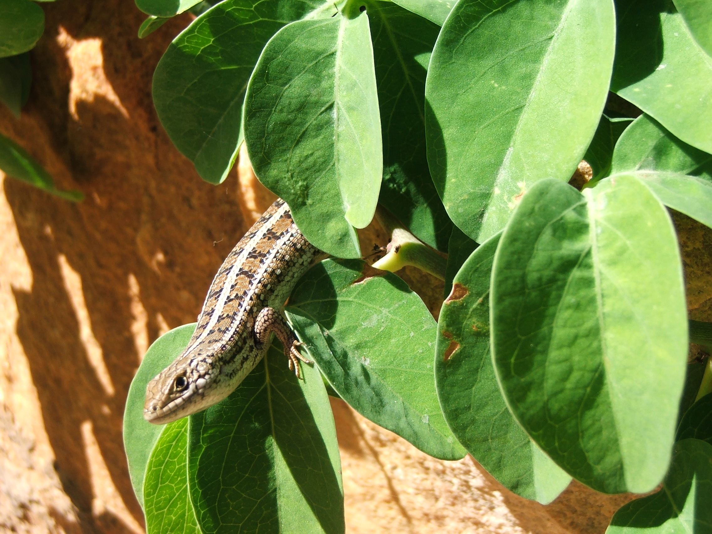 The Cape Skink. Trachylepis capensis. Photo taken in a Cape Town garden.